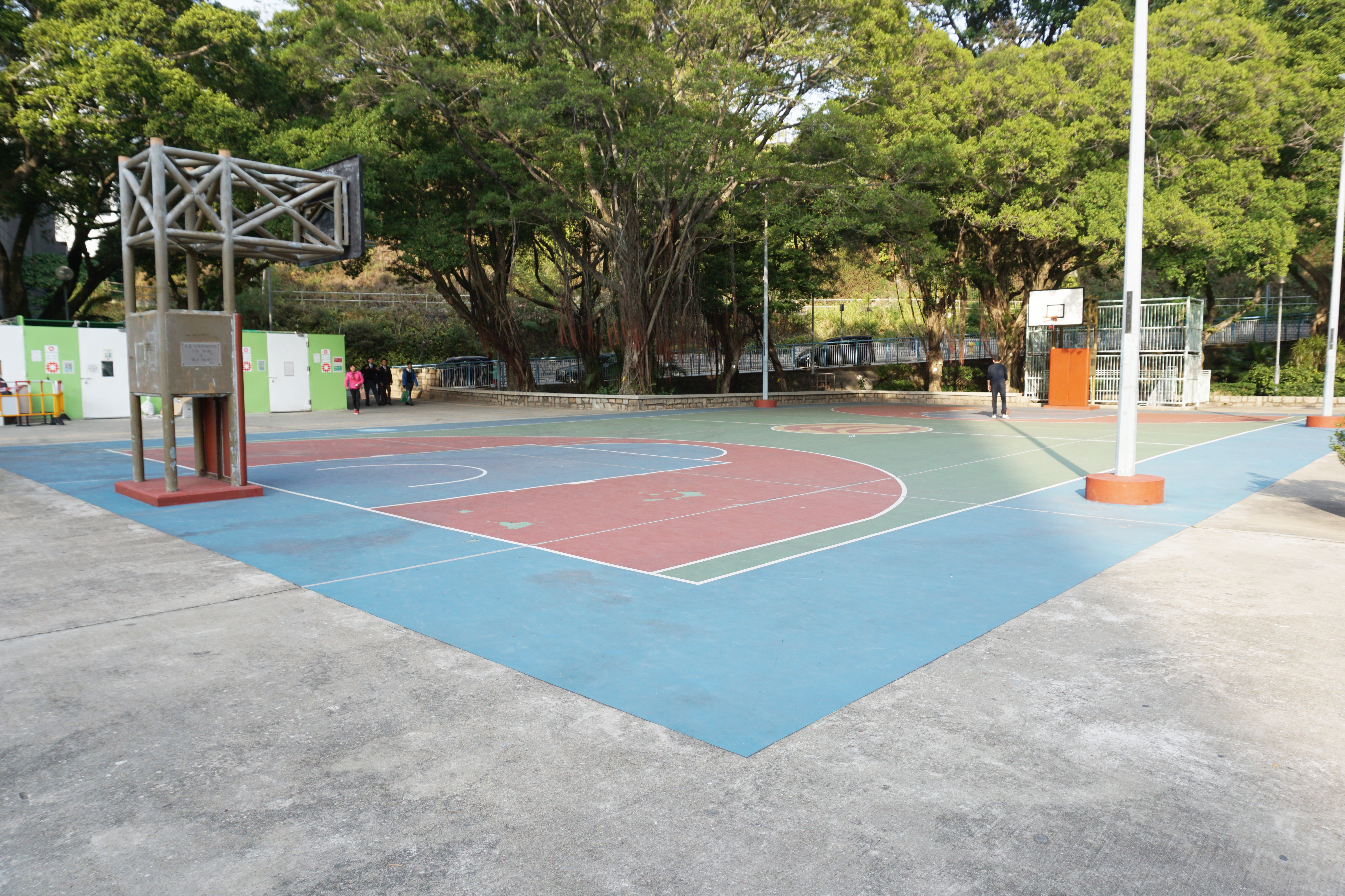 Oi Man Estate in Ho Man Tin, Hong Kong.